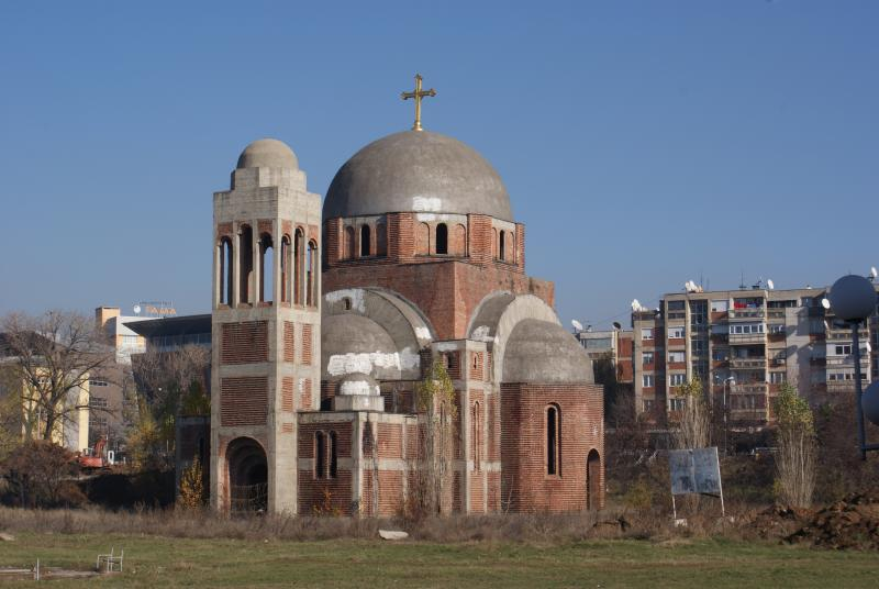 Pristina, Serbian Ortodox Church. November 2009